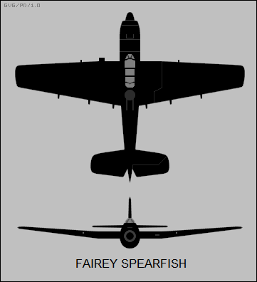 2-view silhouettes of the Fairey Spearfish